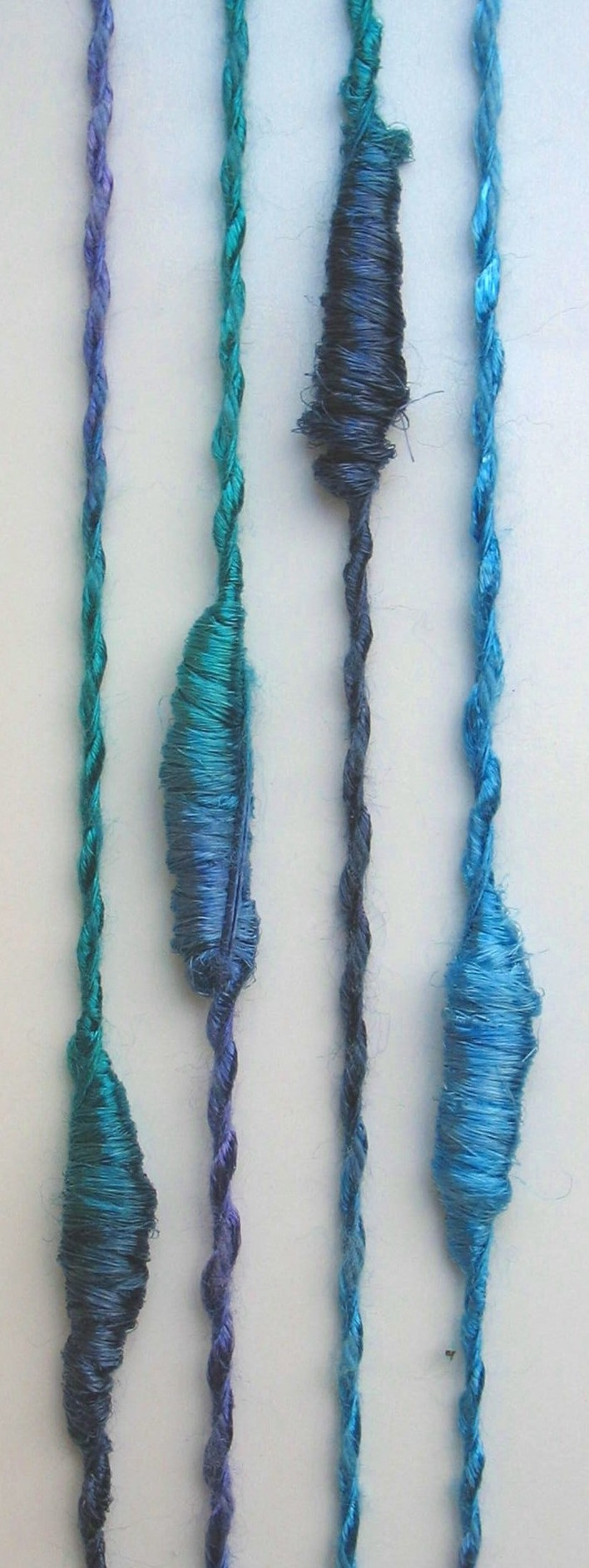 Knop fancy yarn